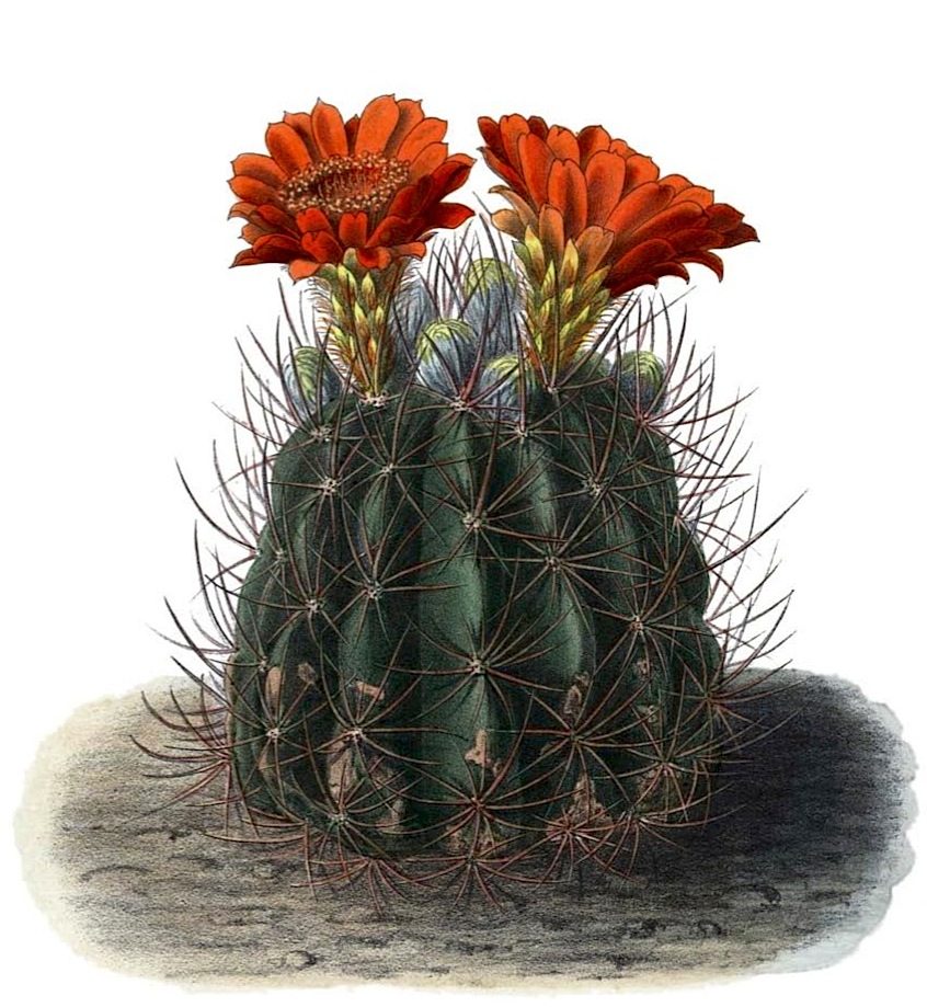 Echinopsis lateritia